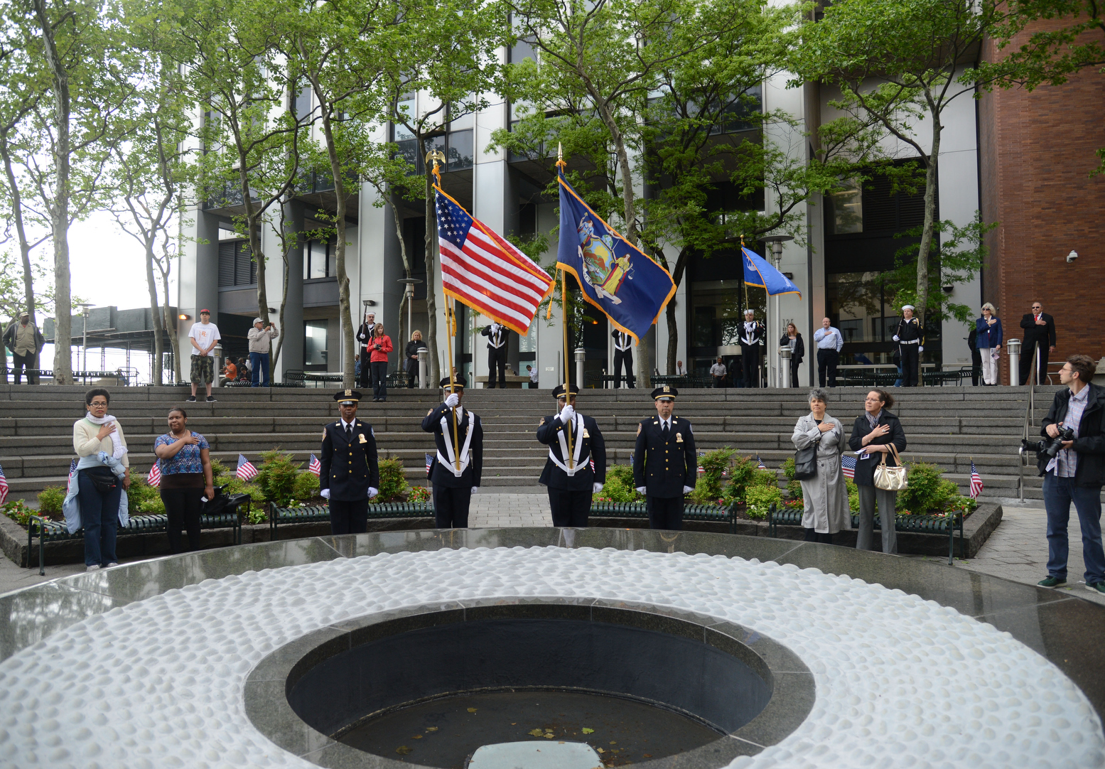 The Transit Veterans Association held its annual Memorial Day ceremony on Fri., May 23, 2014 at Vietnam Veterans Memorial Park in lower Manhattan to remember the 155 employees and all Americans who lost their lives in combat. Photo: Marc A. Hermann / MTA New York City Transit